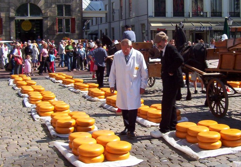 Gouda cheese market on the Thursday morning in 2004, in the city of Gouda Photographer Gebruiker:Johi